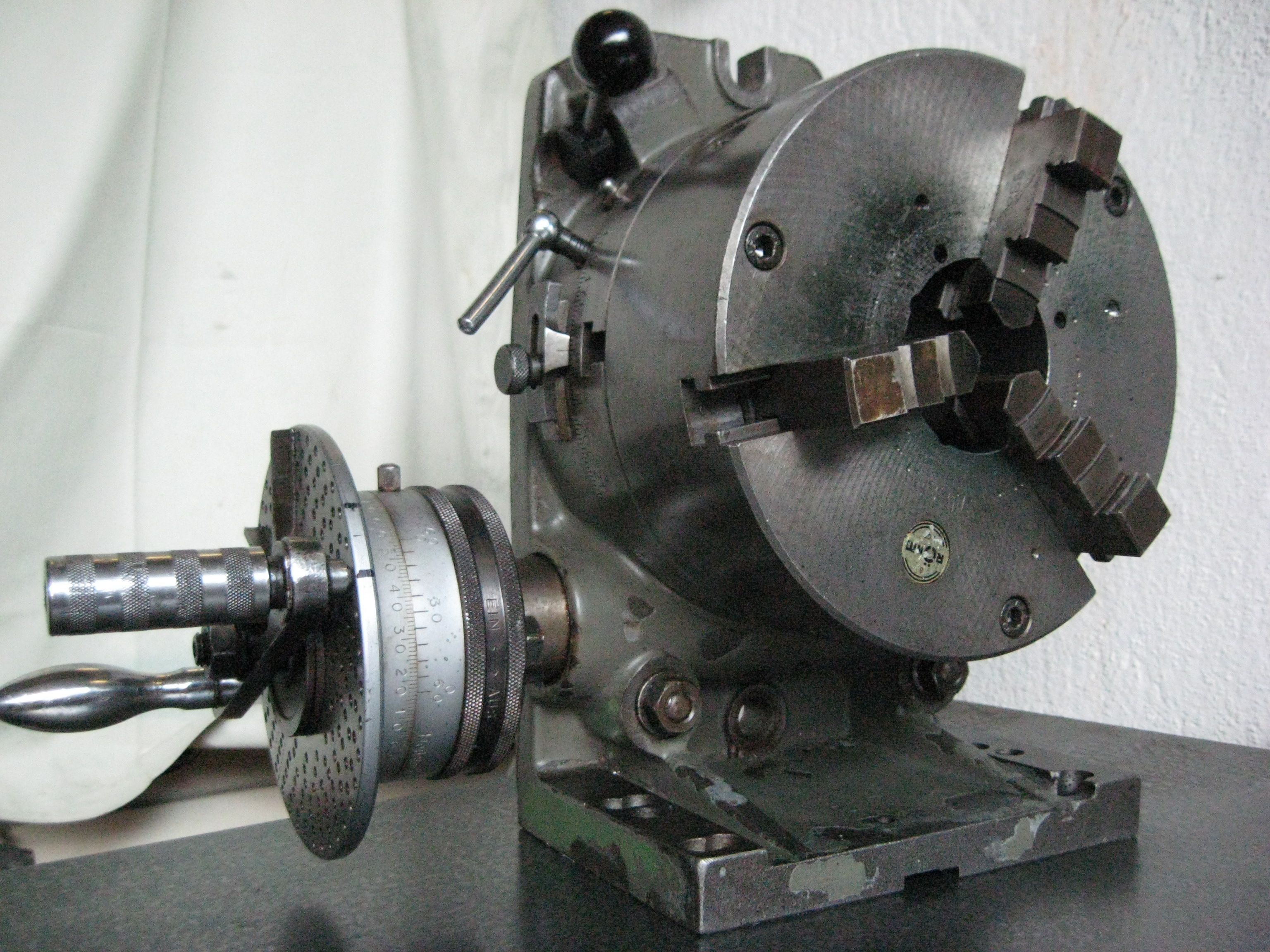 indexing table